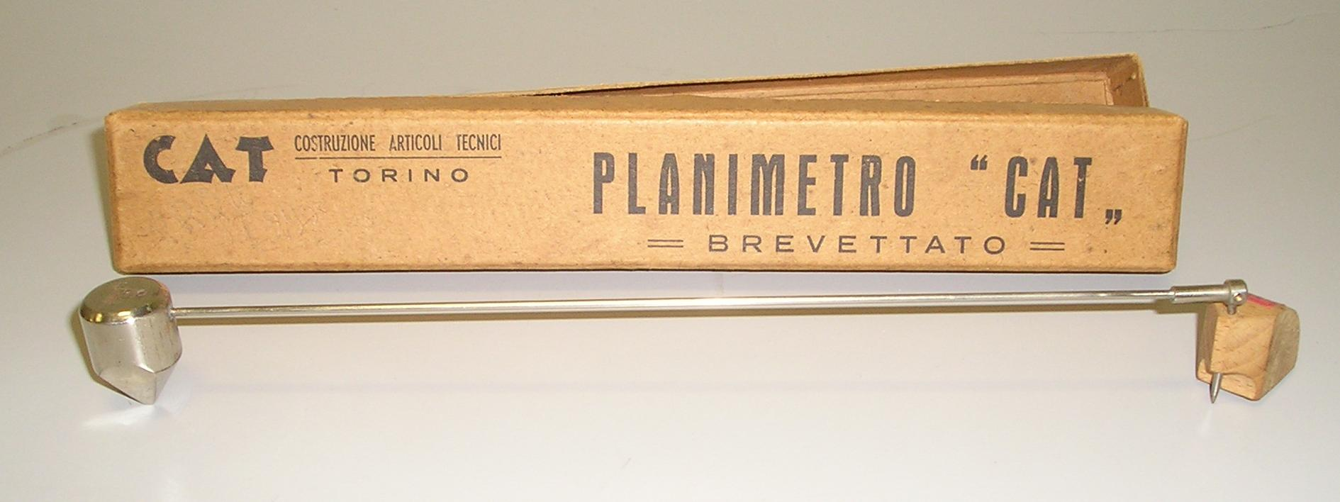 Hatchet planimeter, a "modern" version